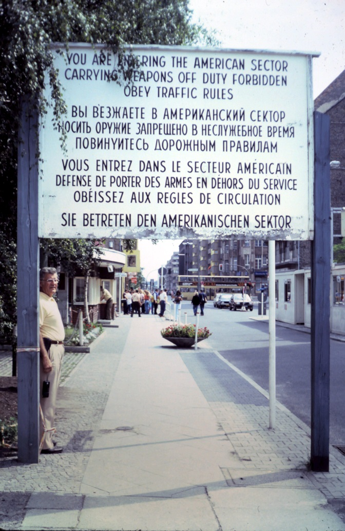 The sign in English, Russian, French and German advising one that one is entering West Berlin. This is how the sign appeared in July 1981. The man in the yellow shirt just to the left might have been a plainclothes US serviceman stationed there for some purpose. He did not move from that spot the whole time I was there.